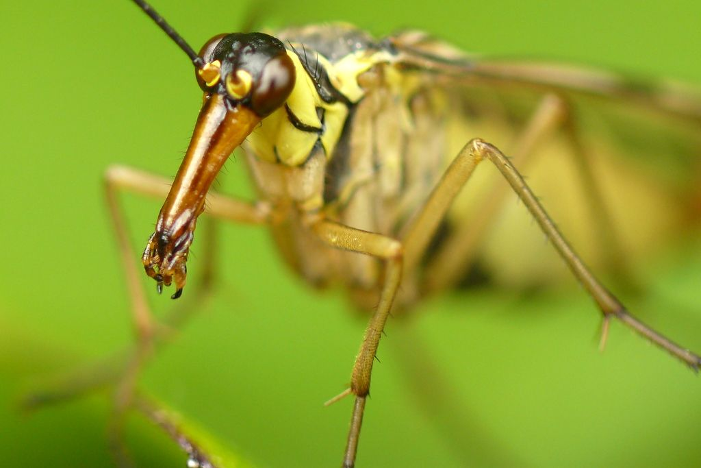 Panorpa communis